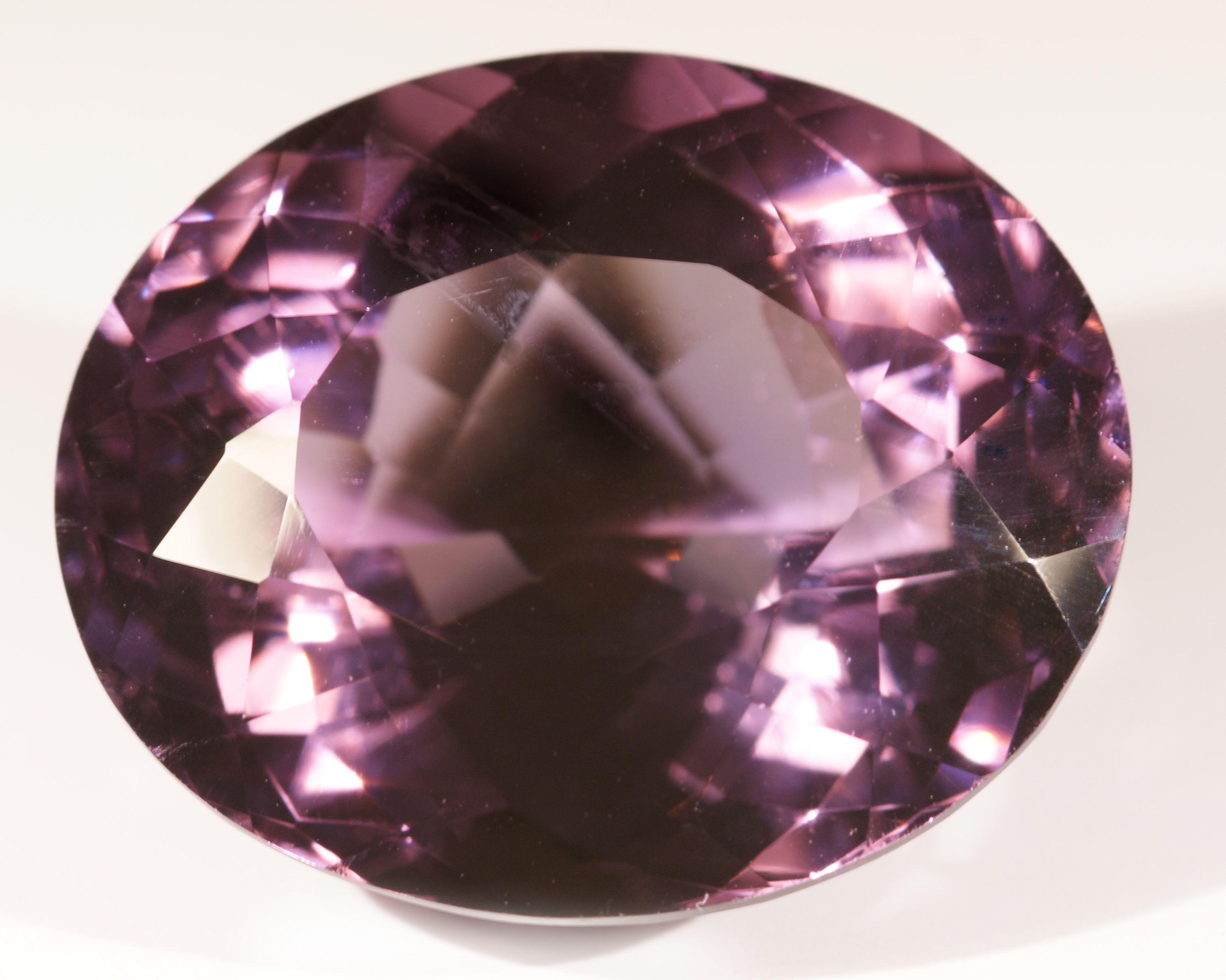 Amethyst -Minas Gerais Brasil - 22x18mm